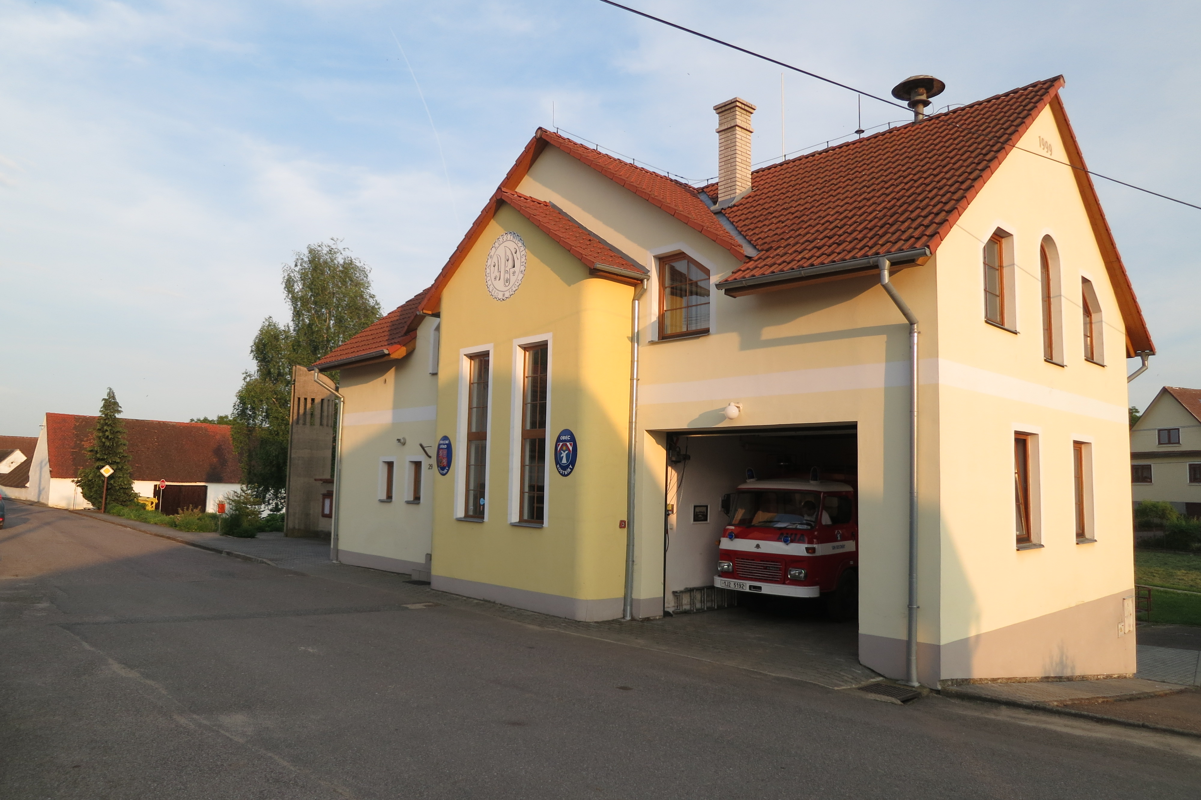 Municipal offices in Kostníky, Třebíč District.